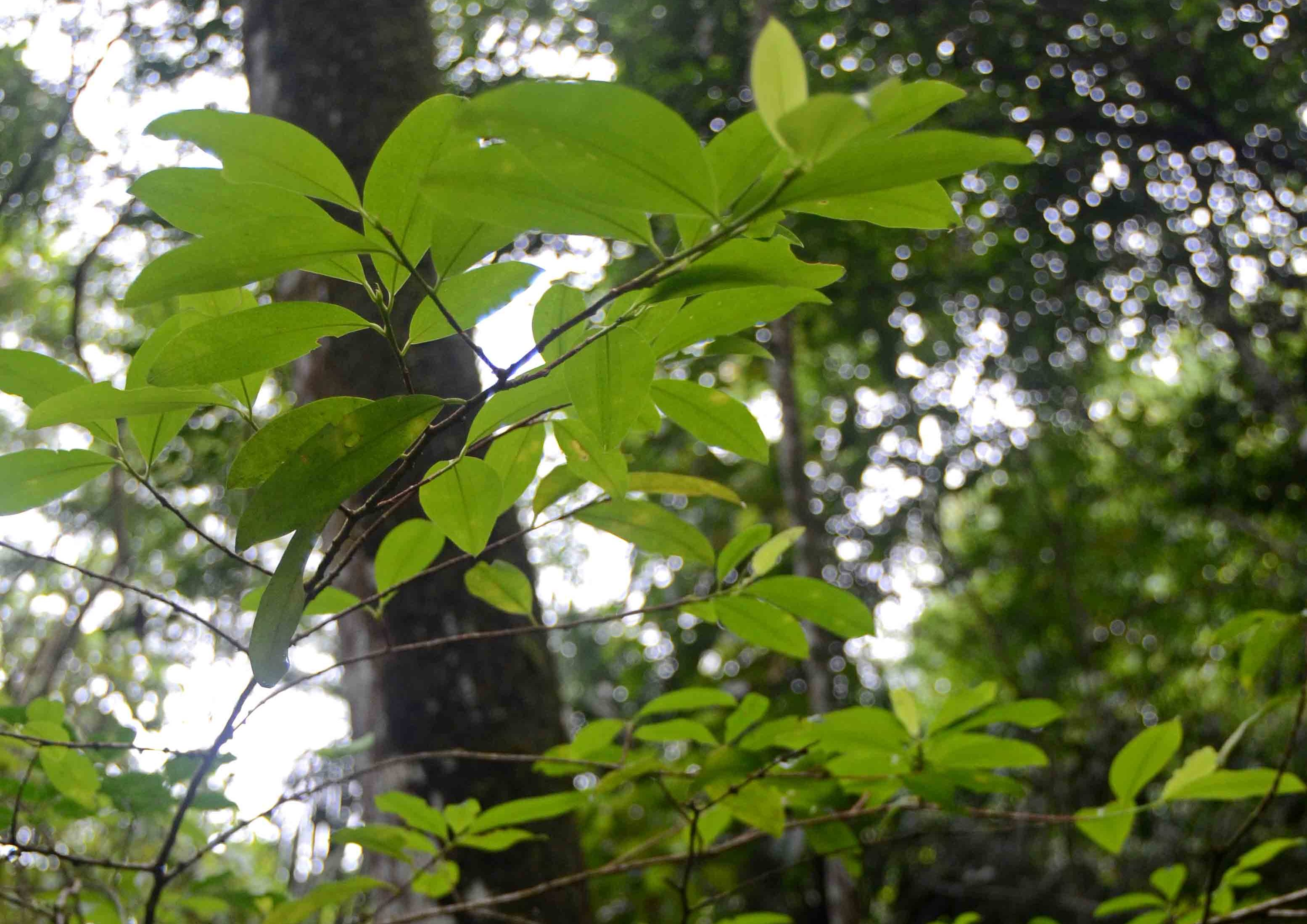 Erythroxylaceae: Erythroxylum coca var. ipadu